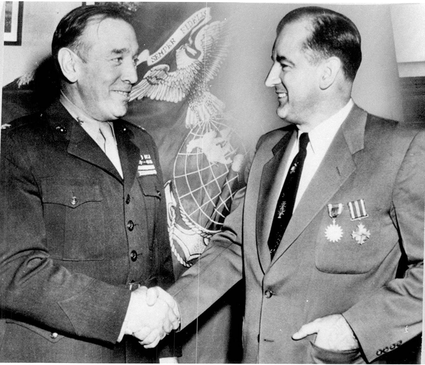 Senator Joseph McCarthy of Wisconsin, (right) is congratulated by Colonel John R. Lanigan, Commandant of The Marine Corps Fifth Reserve District, after the Republican Senator received the distinguished Flying Cross and Air Medal with four gold stars. McCarthy got the medals for 'heroism and extraordinary achievement' as a Marine Officer in the Solomons nine years ago.